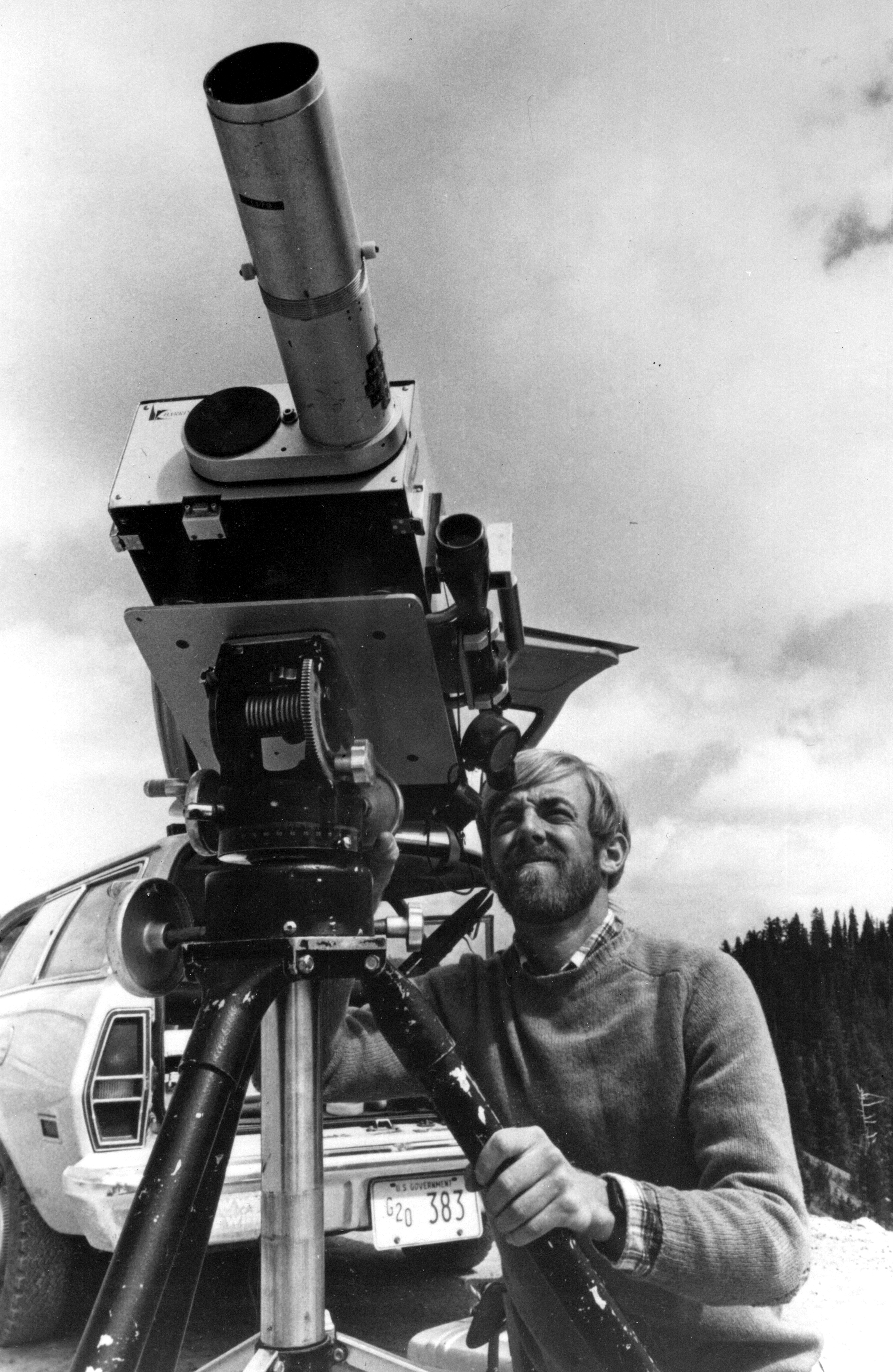 The late Dr. David Johnston, U.S. Geological Survey, using a correlation spectrometer which measures ultra-violet radiation as an indicator of the sulfur dioxide content of gases ejected from Mount St. Helens. Skamania County, Washington. 1980. Published on p. B100 in U.S. Geological Survey. Professional paper 1240-B. 1981.